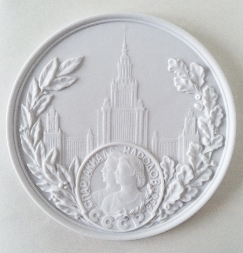 Porcelain medal «Sports of the USSR». 1956. Porcelain of the soviet sculptor Bronislav Bystrushkin (1926-1977). Lomonosov's Porcelain Factory, Leningrad, USSR.